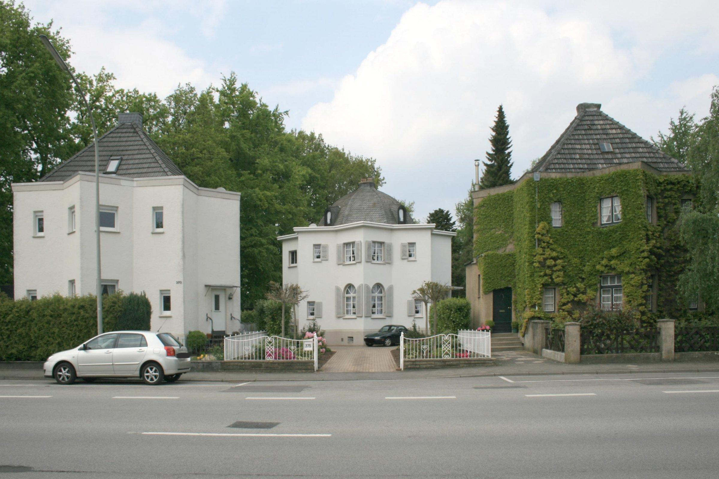 Cultural heritage monument No. G 049 in Mönchengladbach